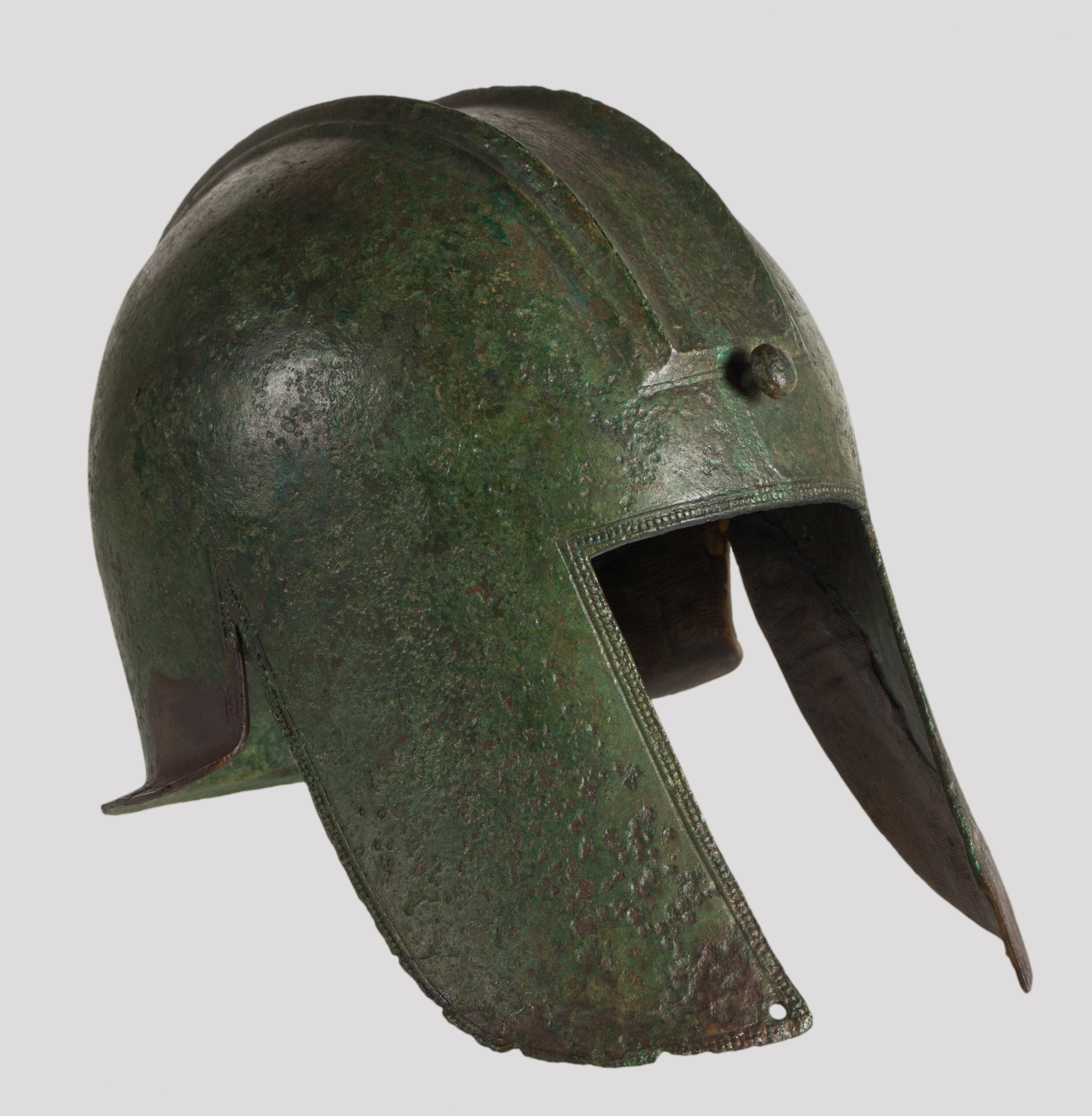 Illyrian-greek helmet